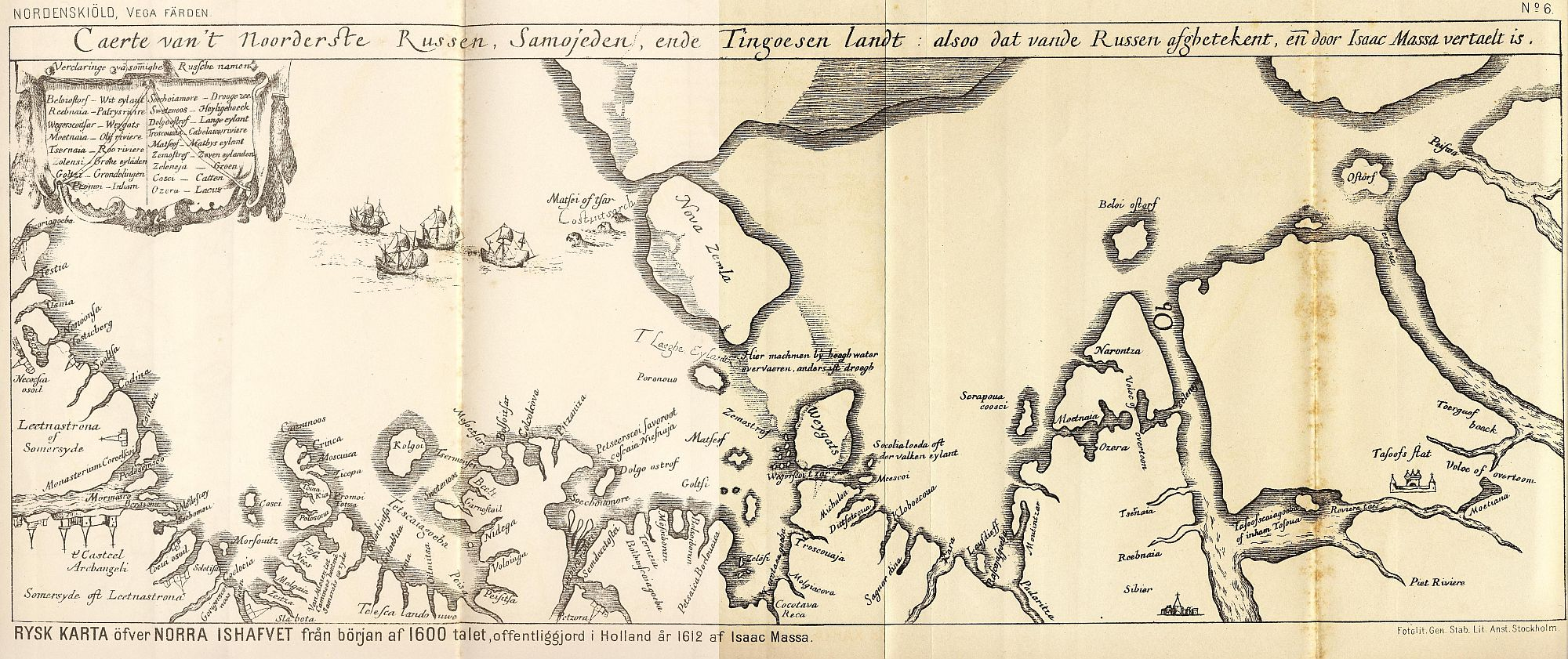 Russian map of northern Siberiia, translated and published 1612 in Amsterdam